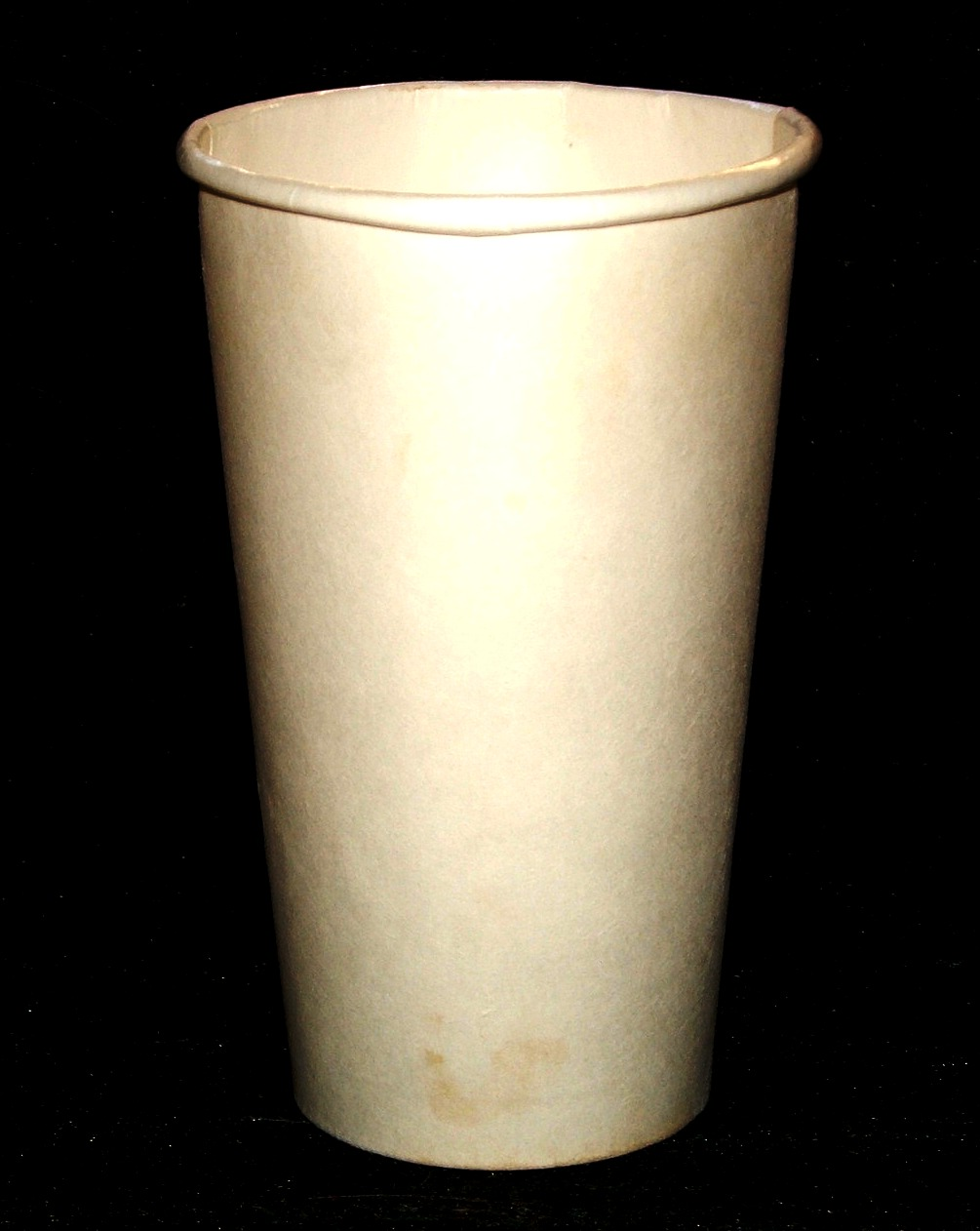 Paper cup